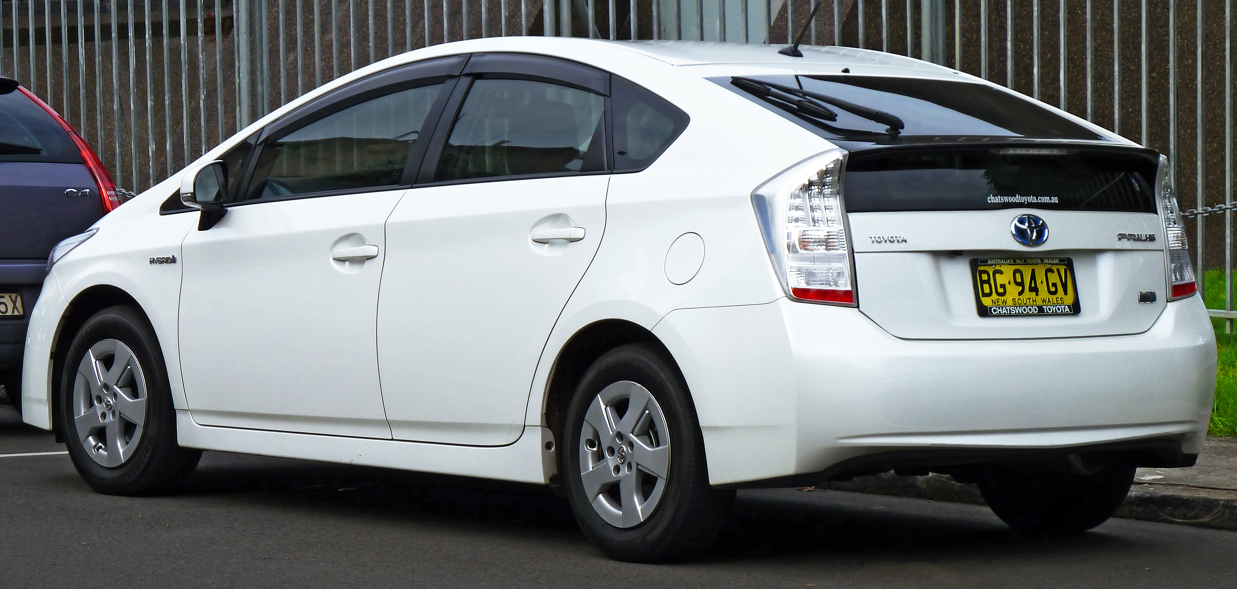 2009 Toyota Prius (ZVW30R) liftback. Photographed in Sydney, New South Wales, Australia.